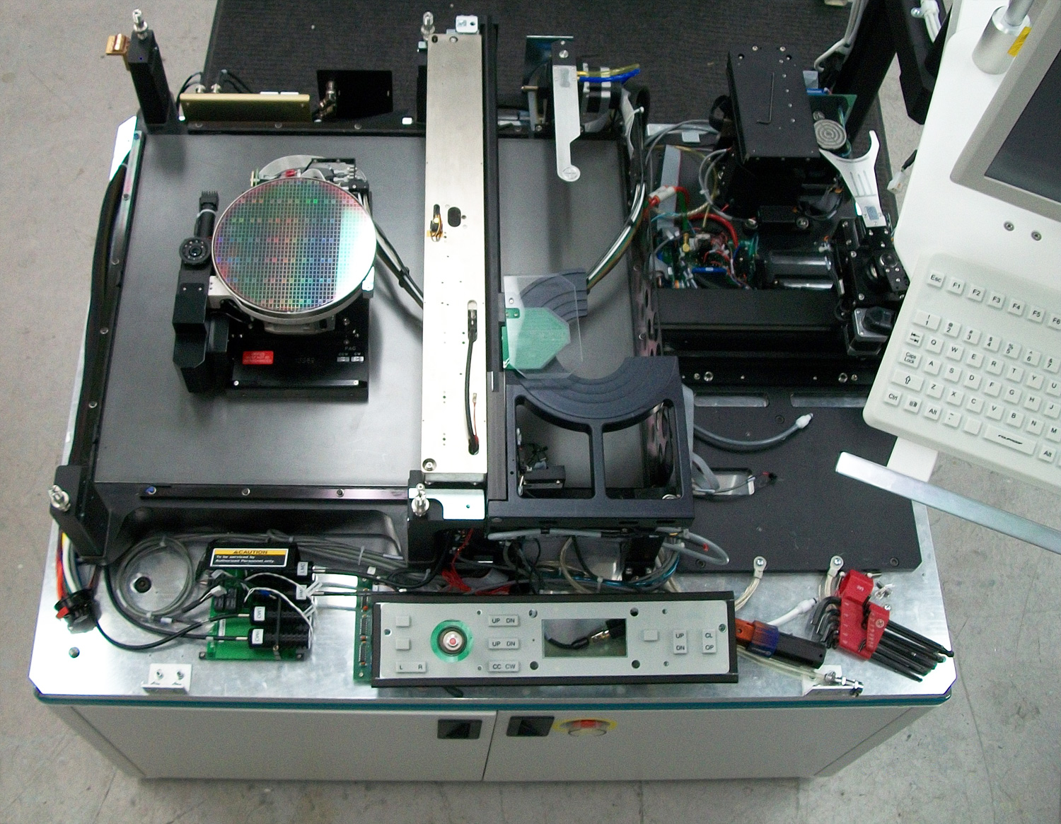 An Electroglas 4090μ+ semiconductor wafer prober in service configuration, with test head, probe card, cover panels and other accessories removed. Internal parts are shown; the linear motor and platen, chuck and stage and material handling elements are shown.